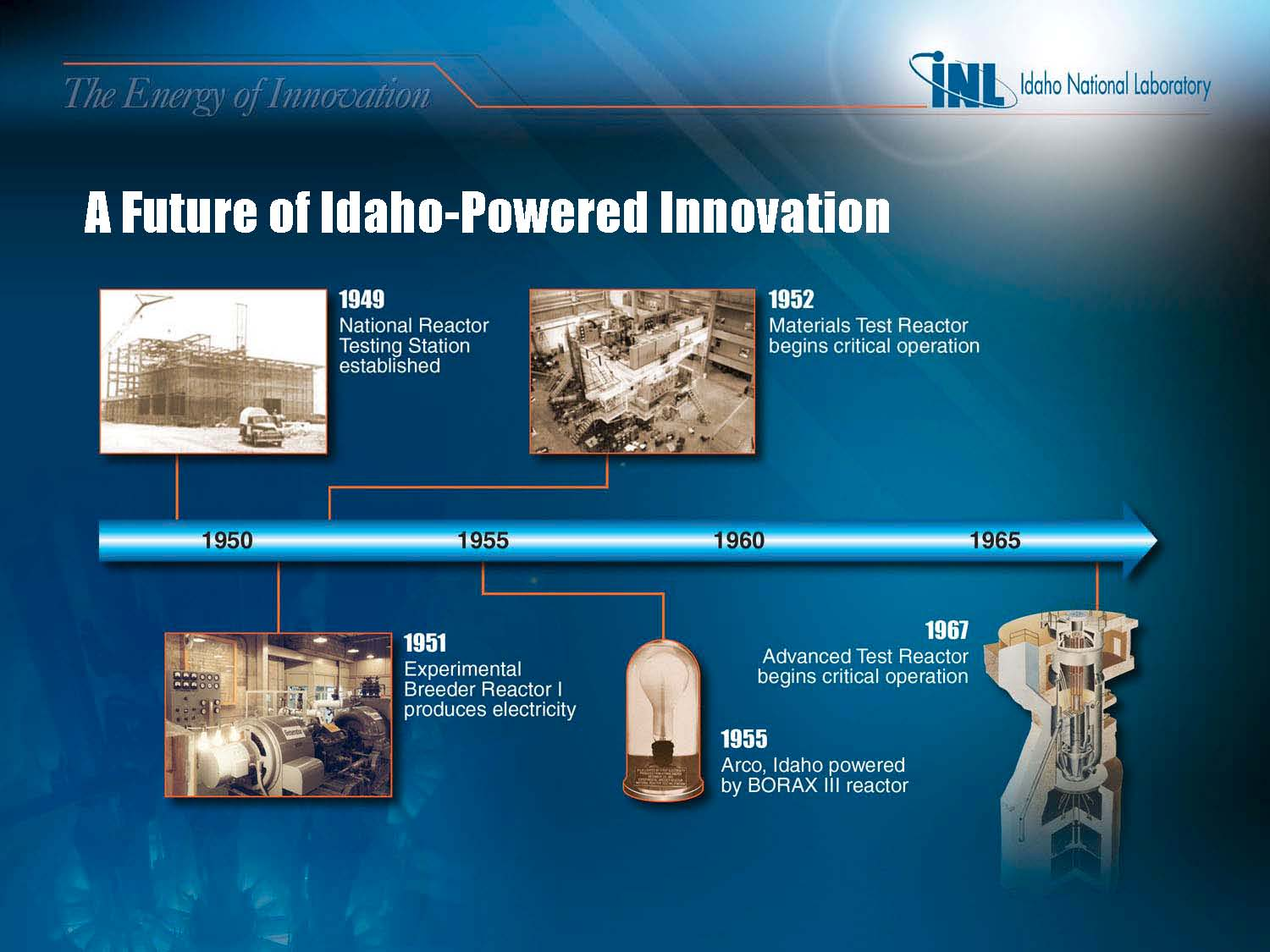 Idaho National Laboratory timeline of energy innovation.